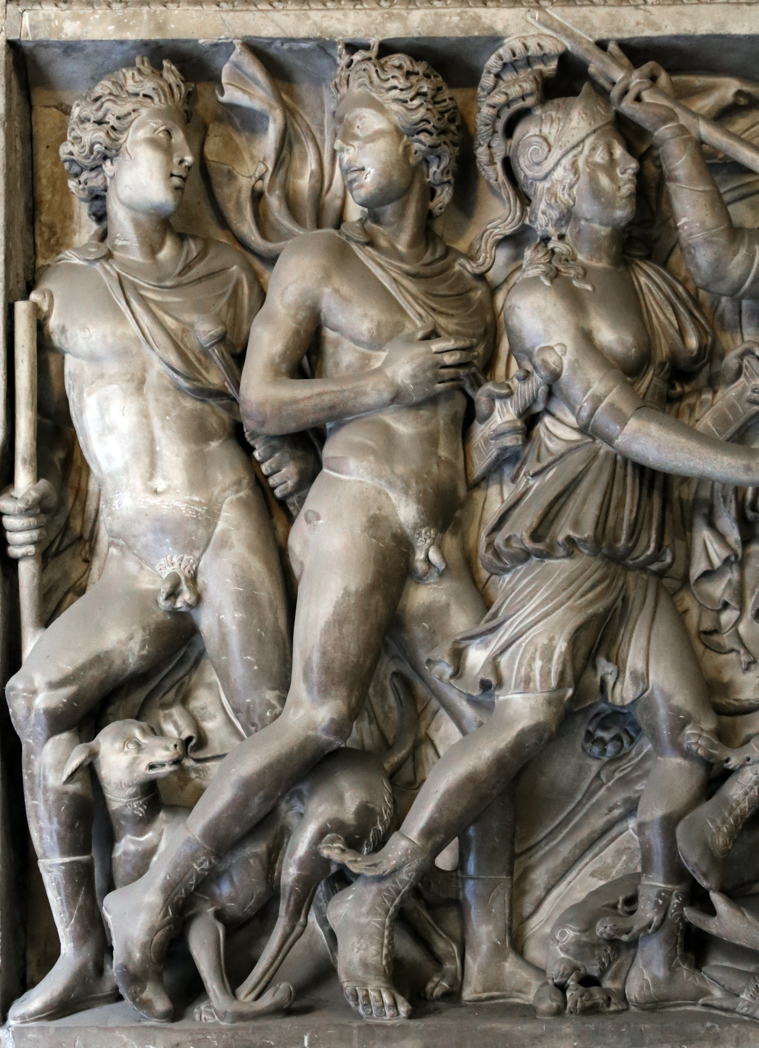 Mattei I sarcophagus (Rome)